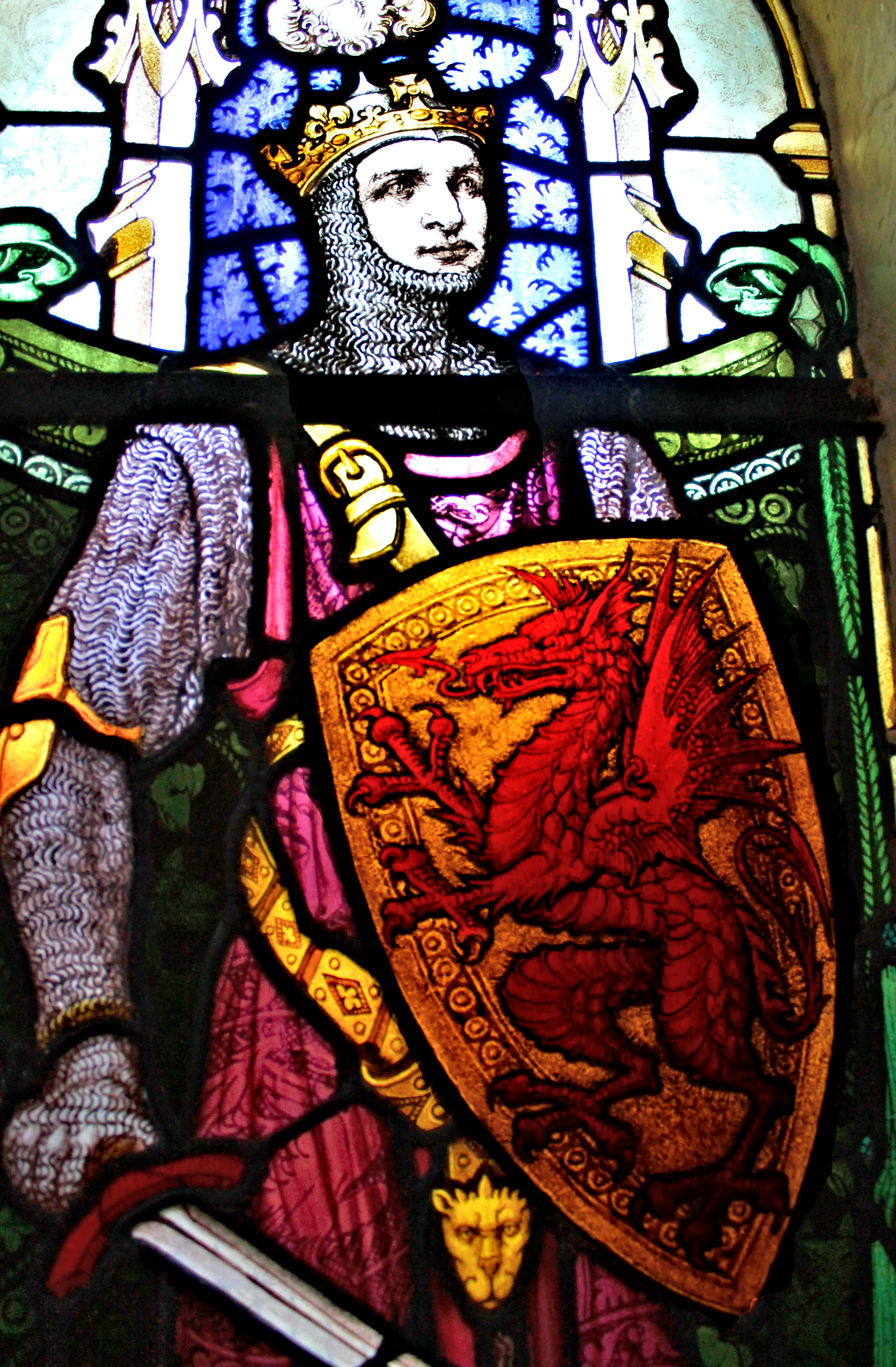 Stained glass window depicting Prince Llywelyn at St Mary's Church, Trefriw, Denbighshire, Wales. Also known as Llywelyn Fawr and Llywelyn ap Iorwerth. Church is Grade II*